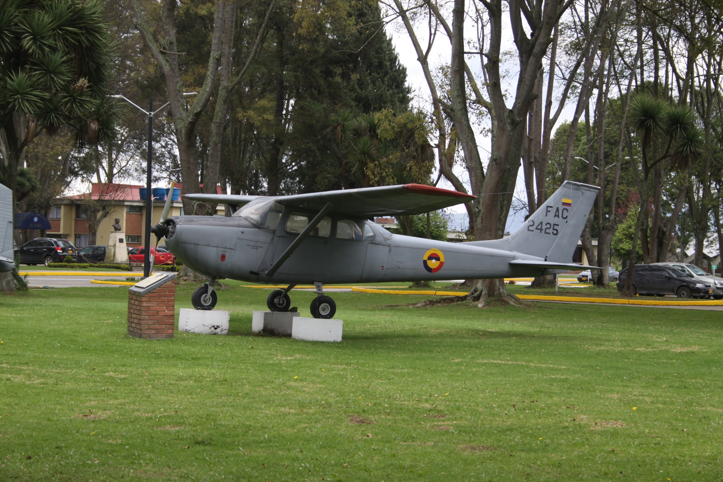 At Bogota El Dorado International